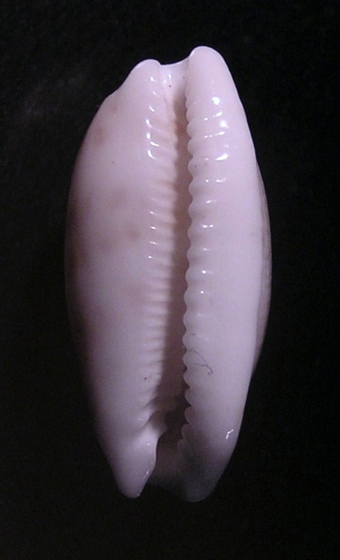 Talostolida teres (Gmelin, 1791) (synonym:Blasicrura teres Gmelin, 1791), a cowry from the family Cypraeidae